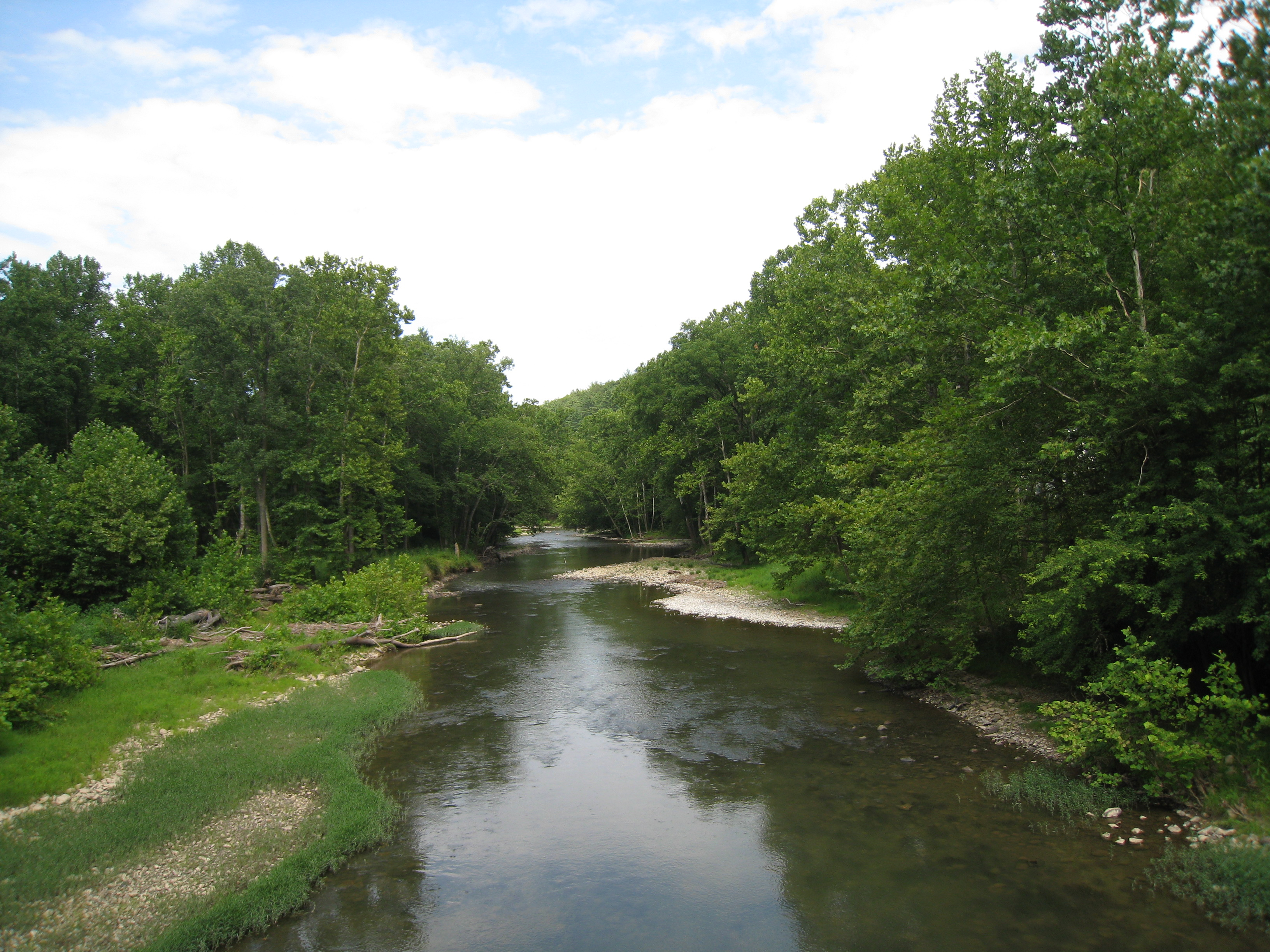 The Cacapon River at the Old Whipple Truss along West Virginia Route 259 in Capon Lake, West Virginia, United States.